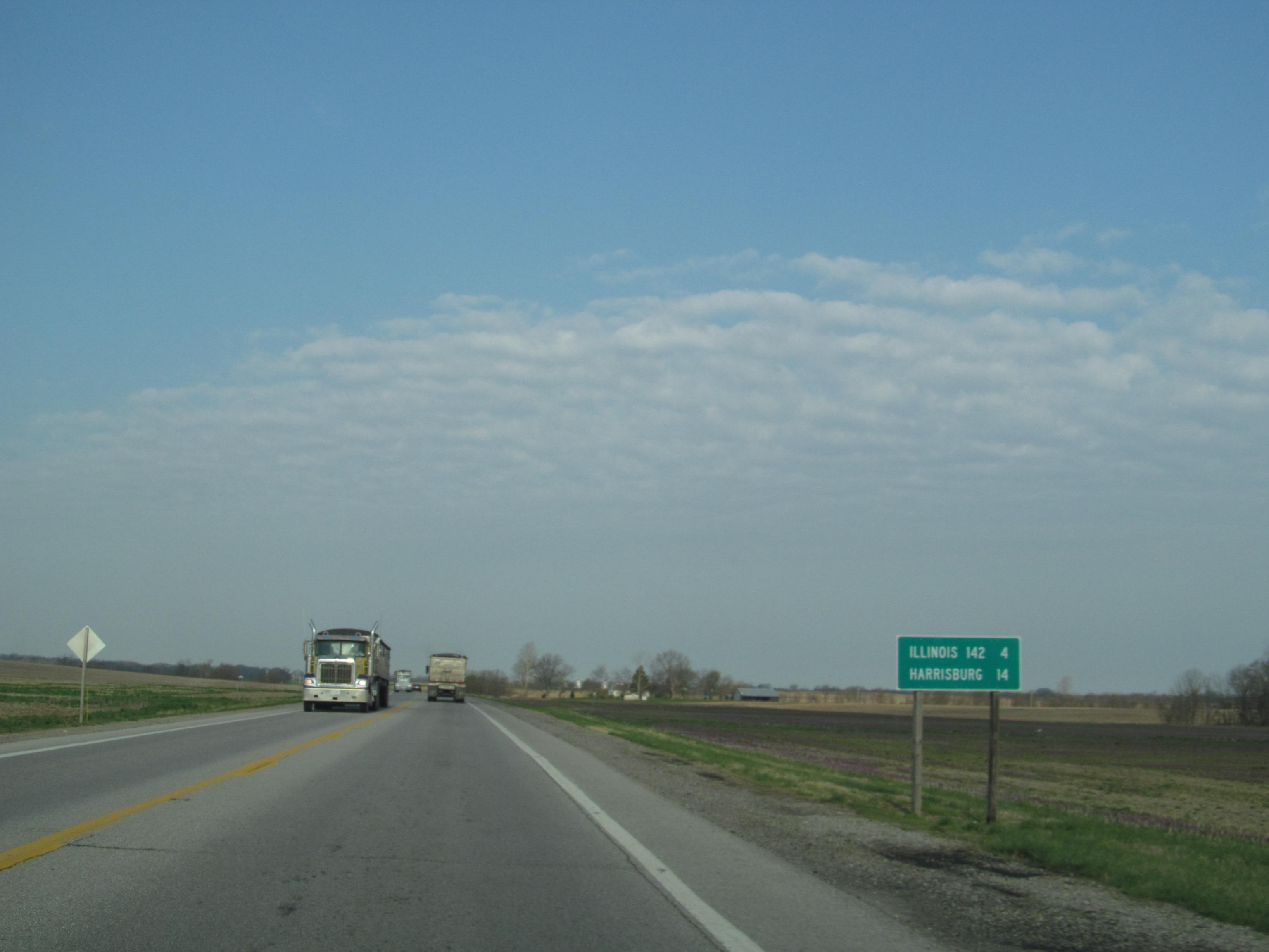 Illinois Route 13, 4 miles east of Junction with Illinois Route 142.